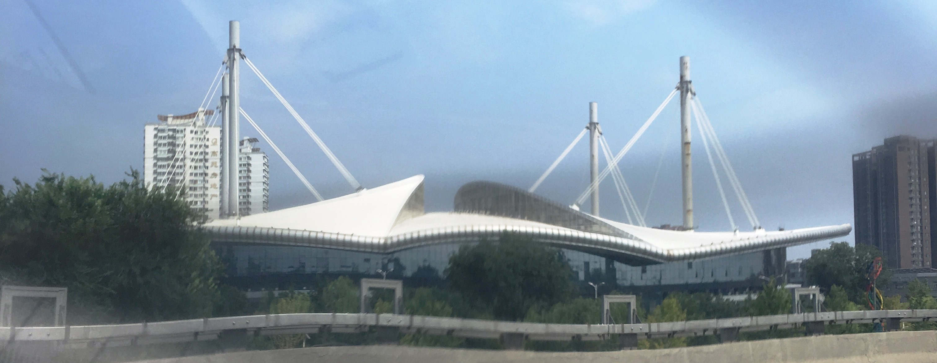 Changping Stadium is the central sports venue in Changping District - northern Beijing.